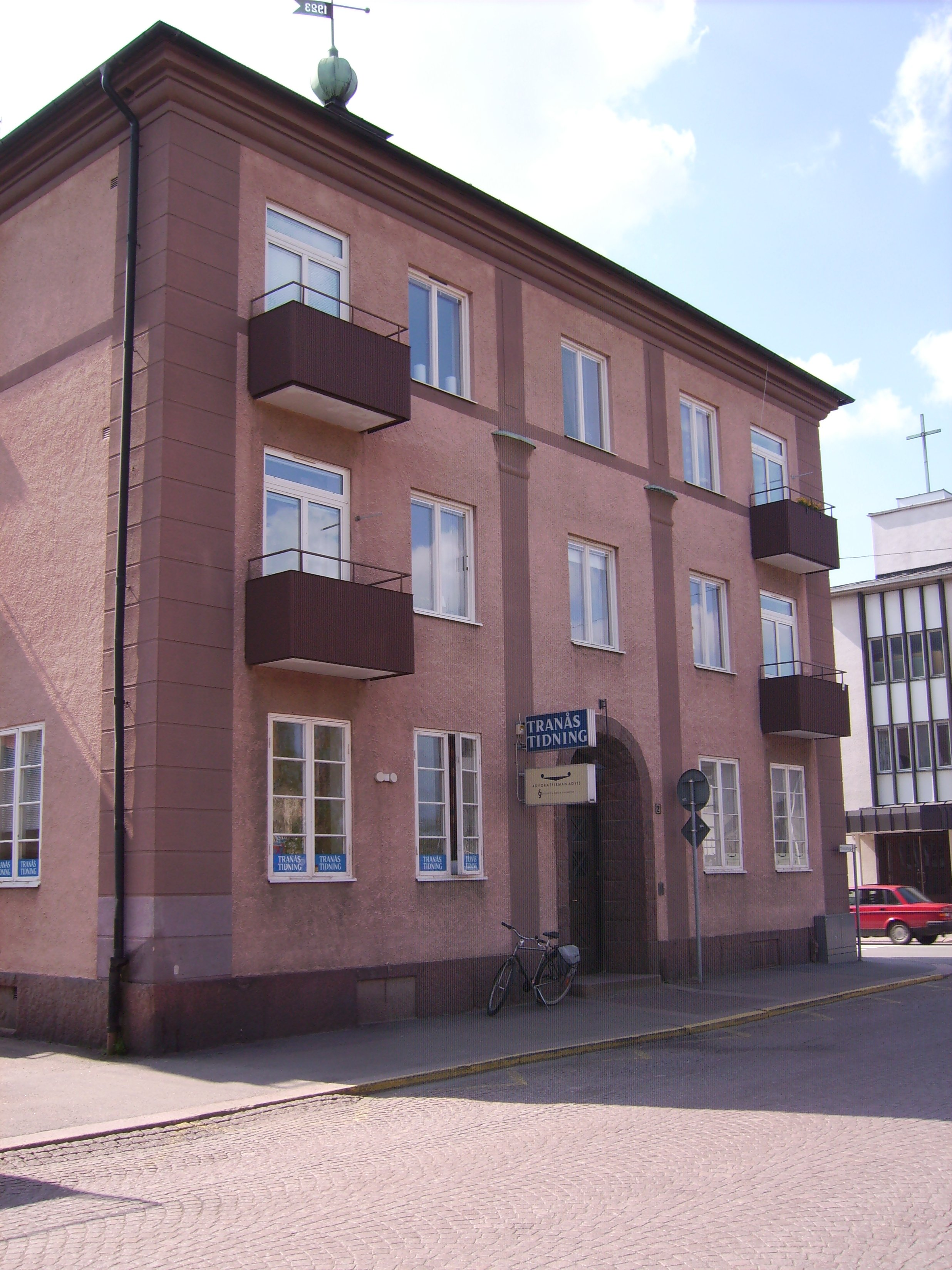 Photo by Harri Blomberg.